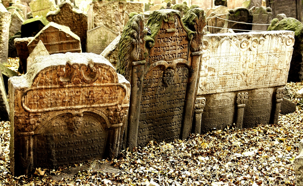 Jewish tombs, Prague